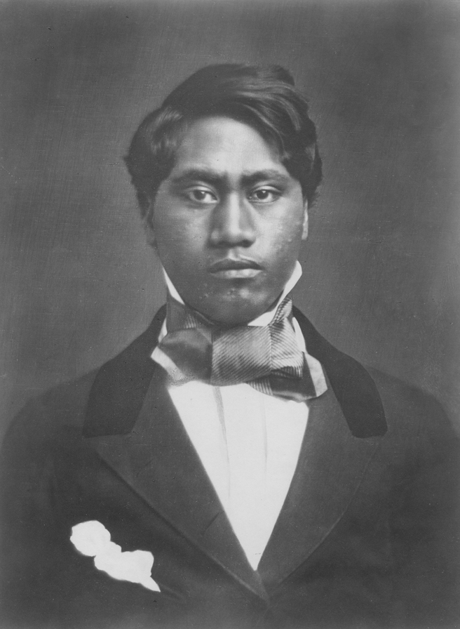 Prince Lot Kapuaiwa on tour in the United States and Europe.